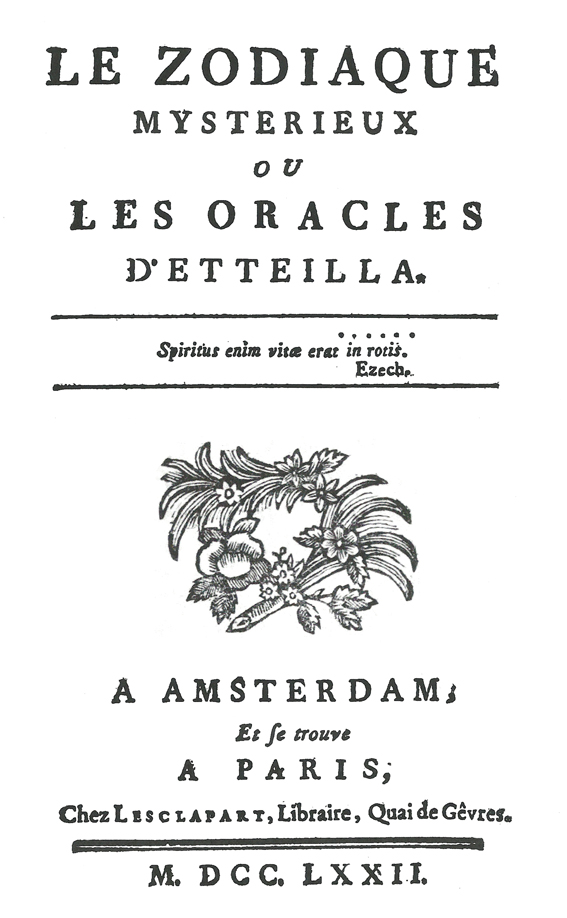 Title page from Etteilla (Jean-Baptiste Alliette), Le Zodiaque Mysterieux ou les Oracles d'Etteilla A Amsterdam 1772